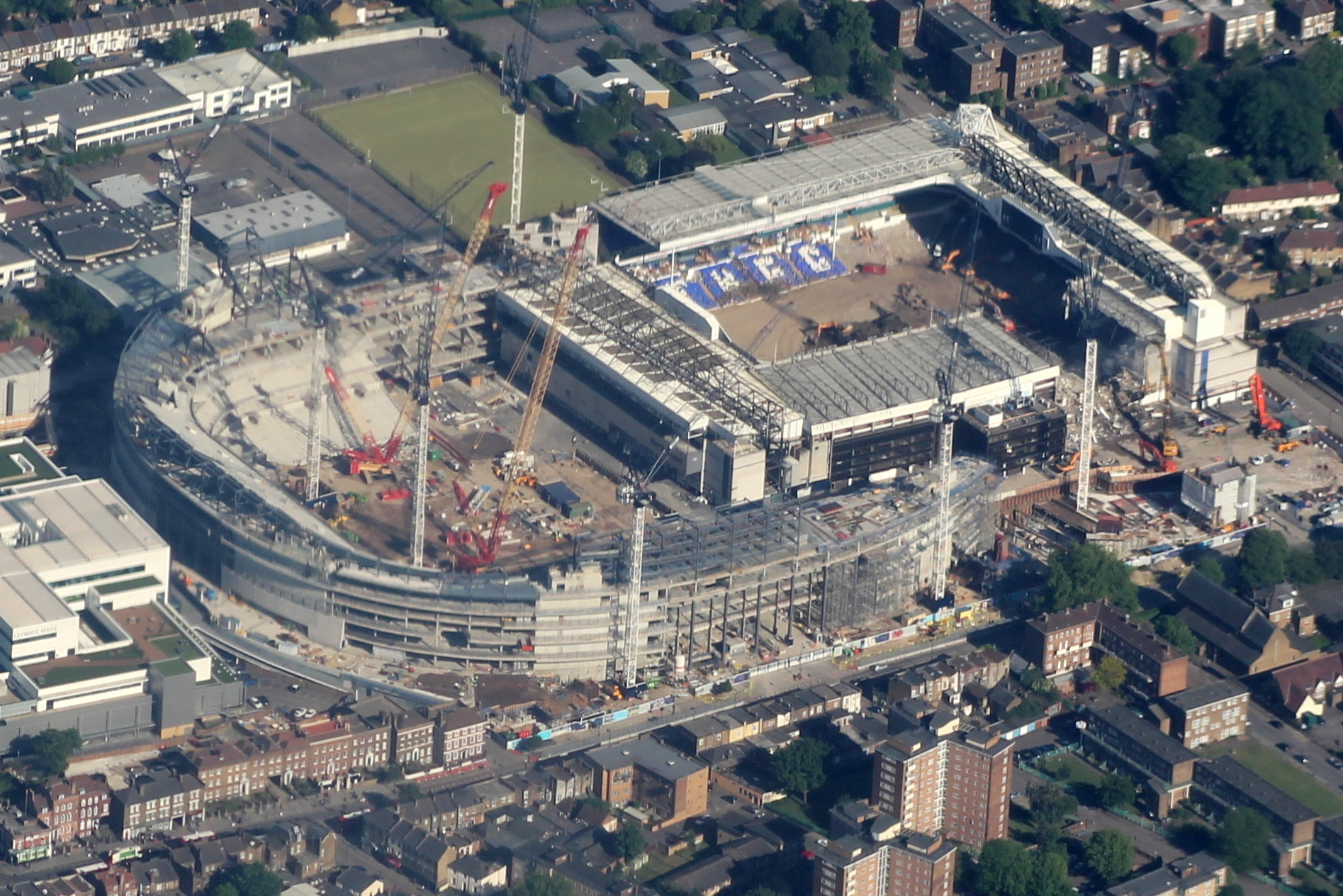 The new Tottenham Hotspur stadium under construction and the old White Hart Lane being demolish, Image trimmed to focus on stadiums